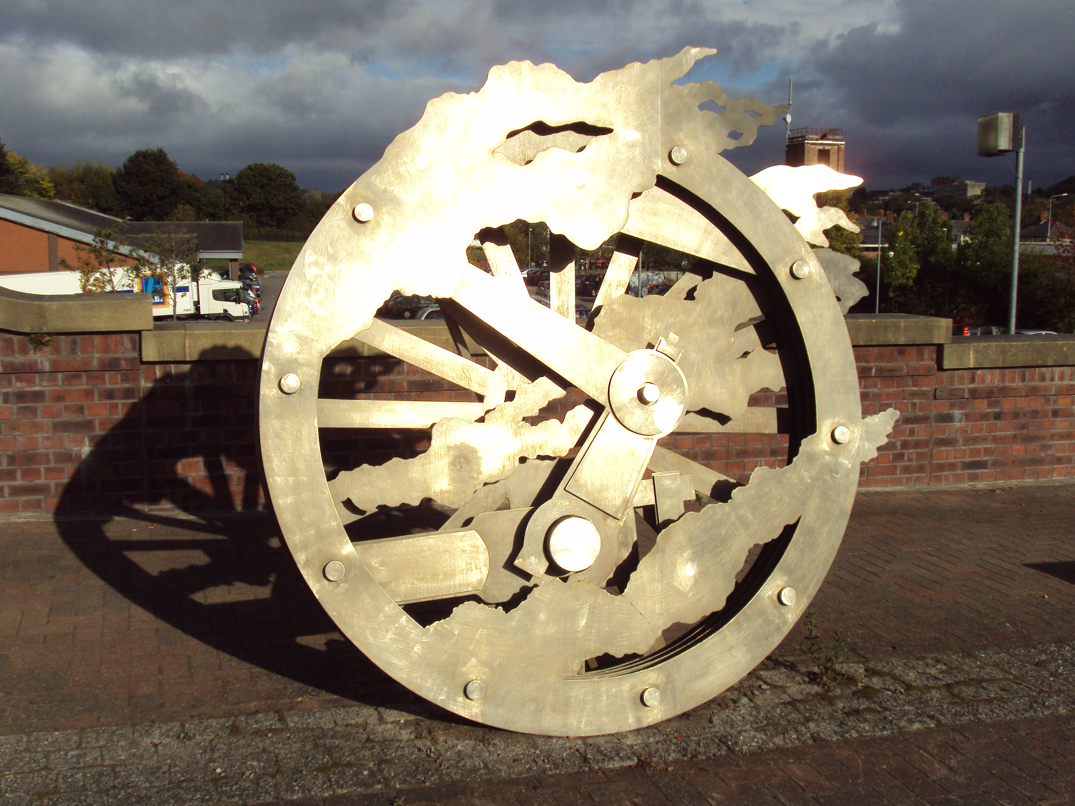 Metal sculpture on Chester Street, Mold, Flintshire, Wales.